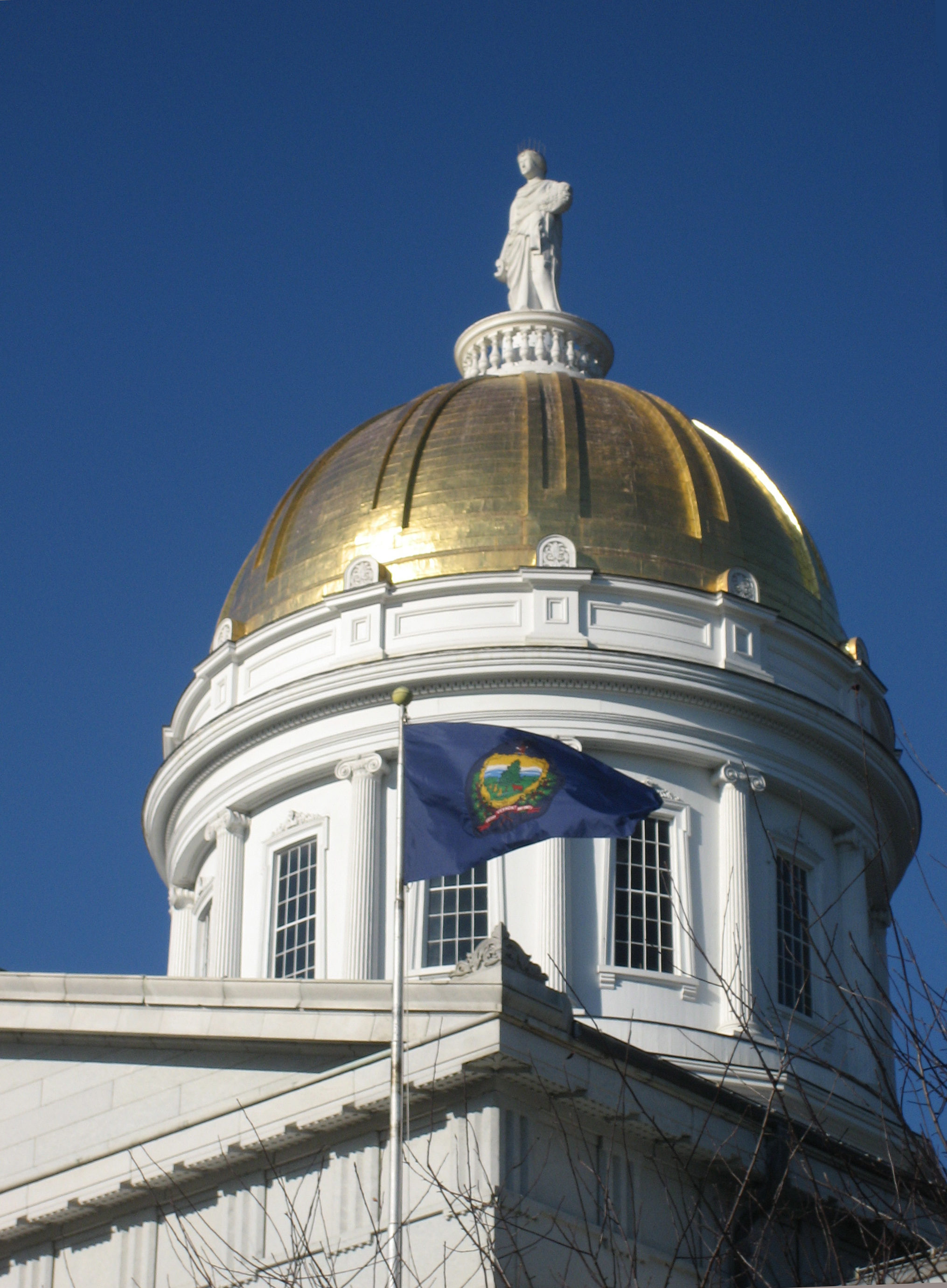 Dome of the Vermont State House. 03.15.07. Jim Hood